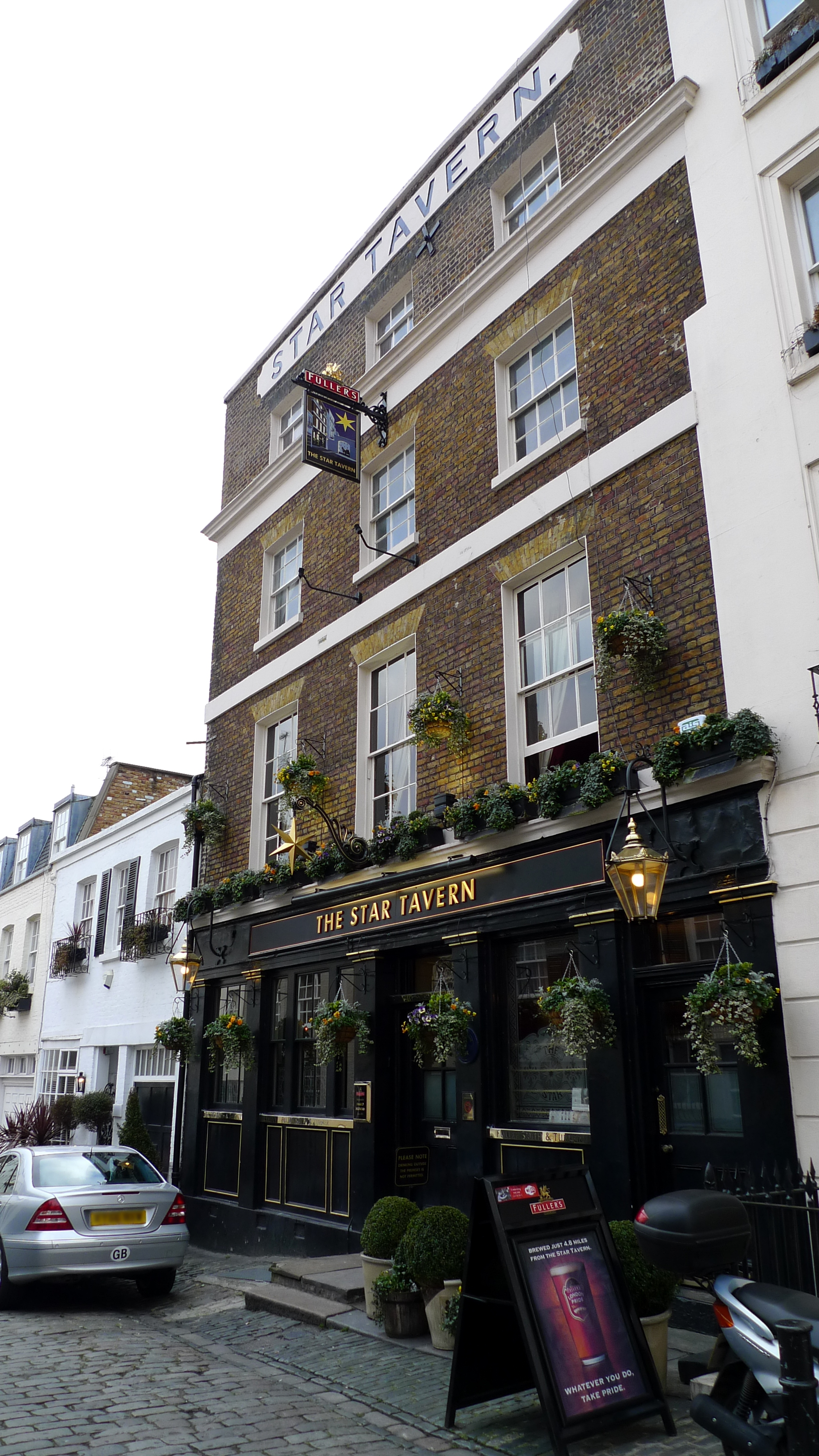 A very pleasant pub hidden away off Belgrave Square. As of 2012, it's been in every Good Beer Guide since the first one in 1974. Address: 6 Belgrave Mews West Owner: Fuller Smith Turner (website). Links: Randomness Guide to London Fancyapint Beer in the Evening Qype Dead Pubs (history)